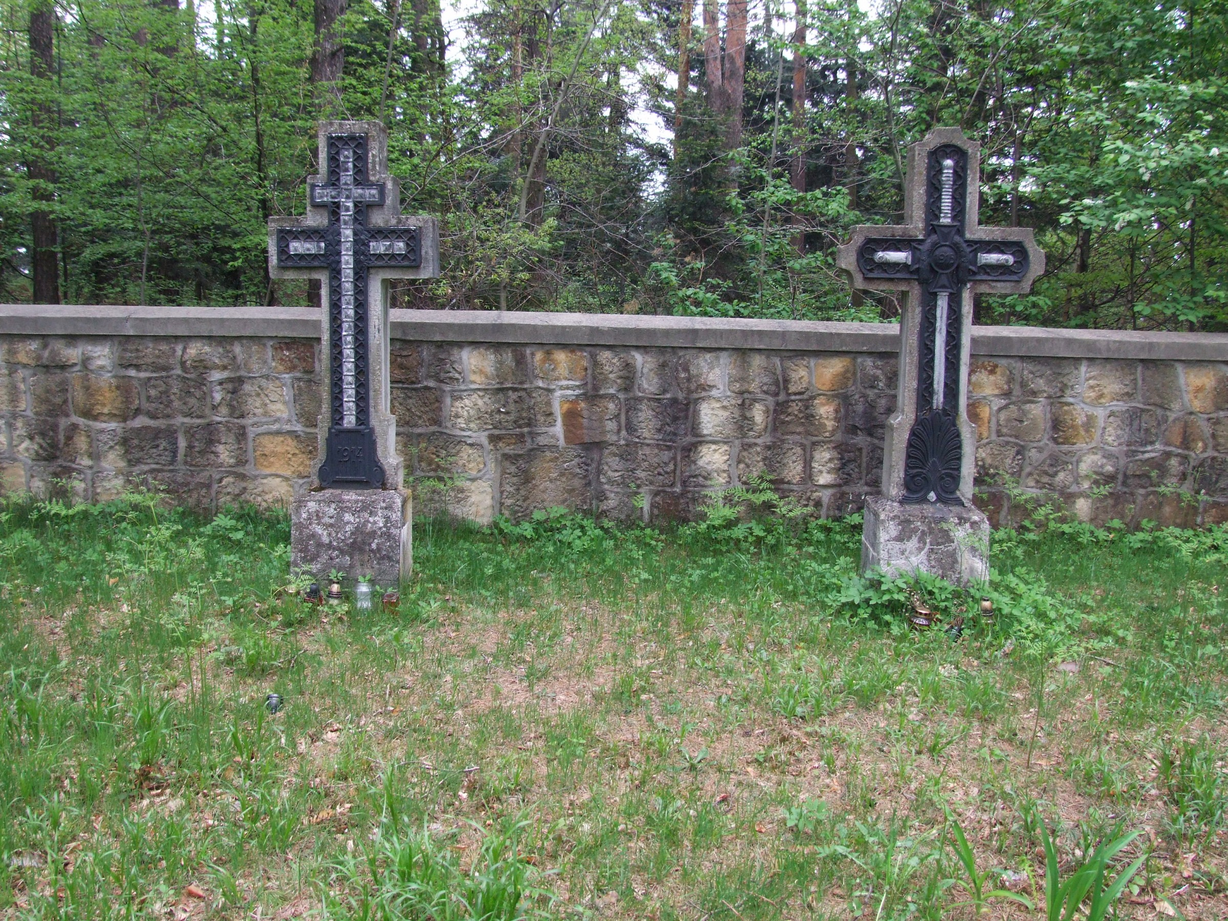 World War I Cemetery nr 360 in Słupia